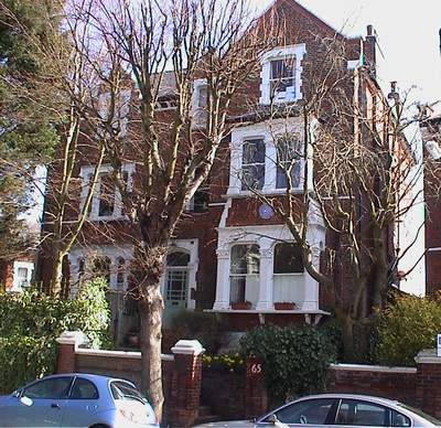 Author: Cromwell Avenue, Highgate, London N6 5HS, London Borough of Haringey. Plaque erected in 1985 by Greater London Council Inscription: "VINAYAK DAMODAR SAVARKAR 1883-1966 Indian Patriot and Philosopher lived here"